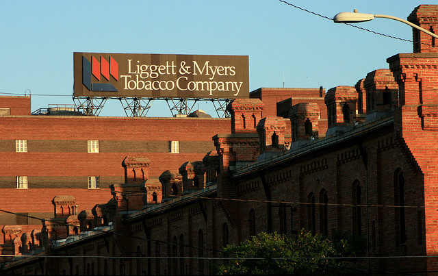 Tobacco Warehouses in Durham